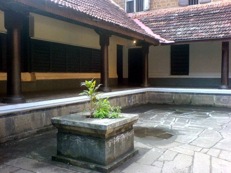 A nadumuttom in Kerala.